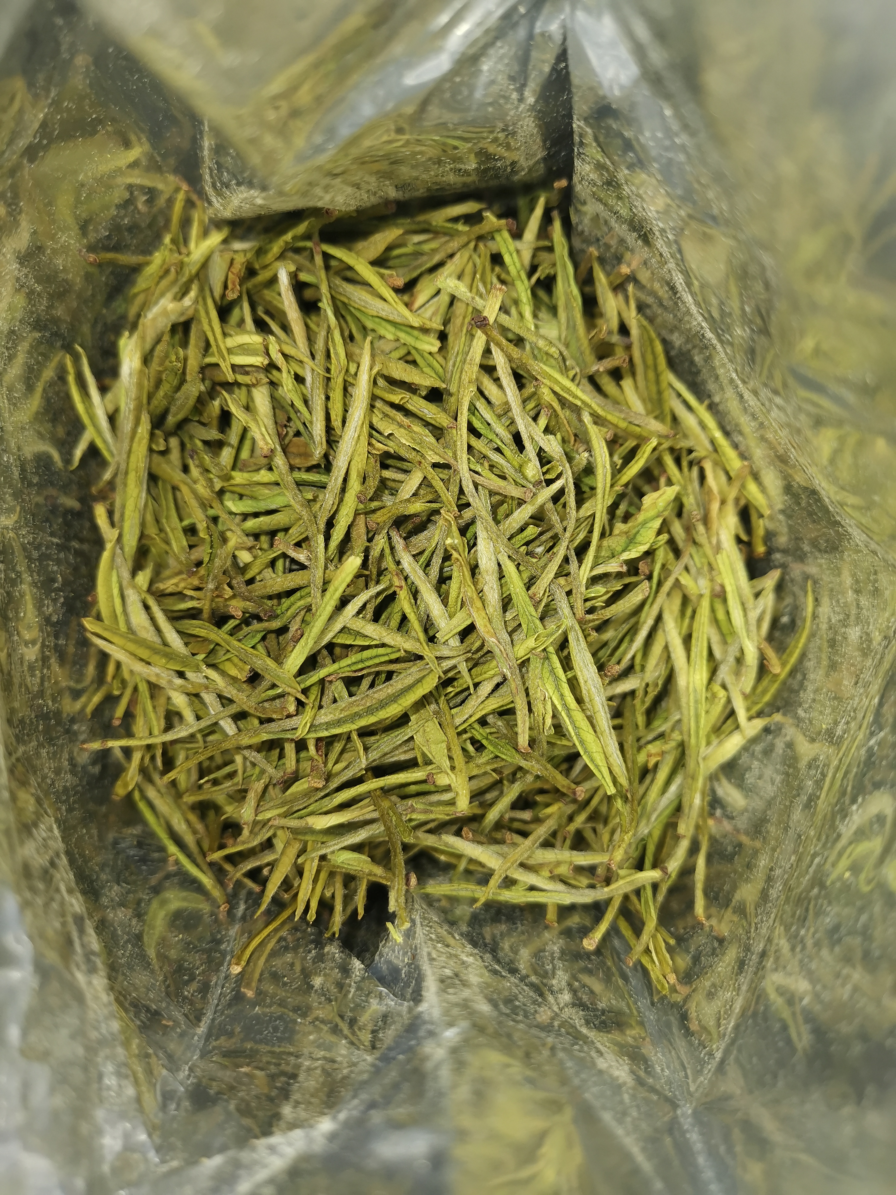 安吉白茶 2020年